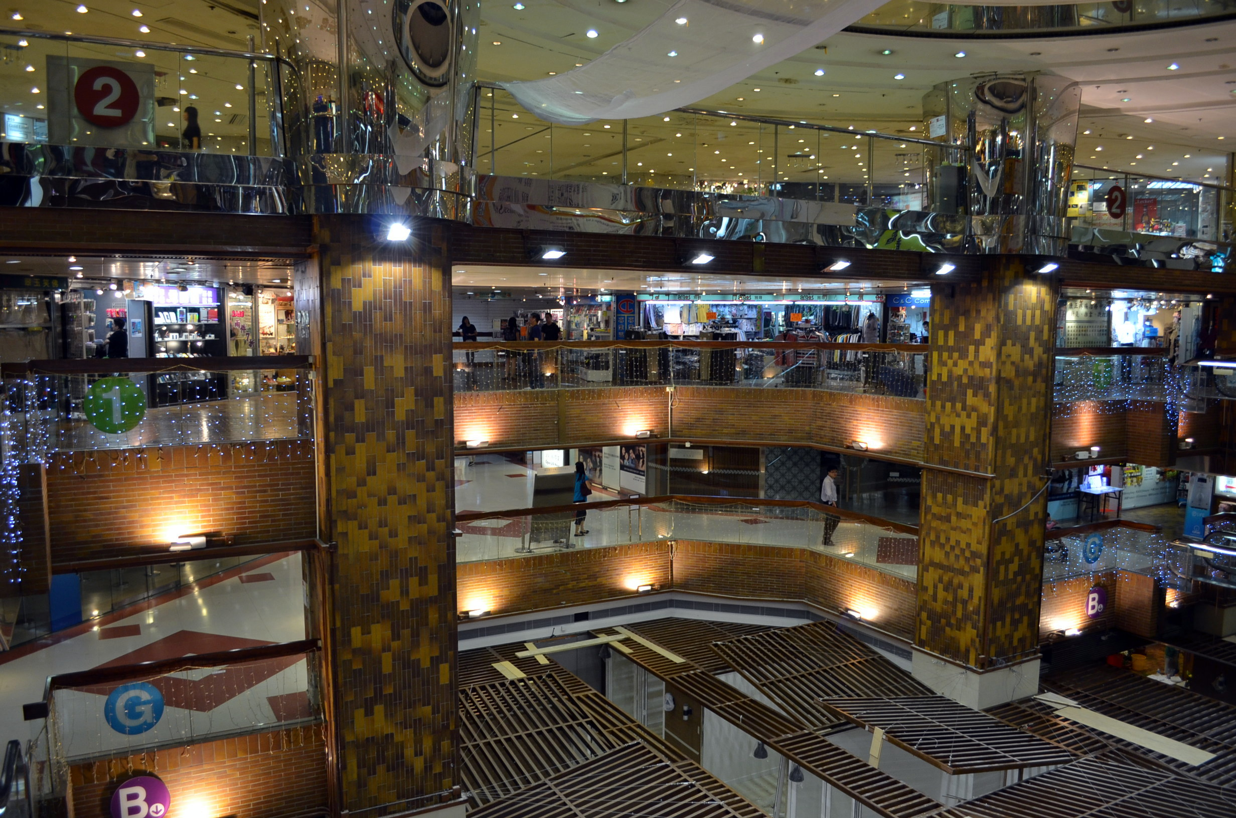 Interior of the Hung Hom Square shopping centre, Ma Tau Wai Road. 中文（香港）: 紅磡馬頭圍馬頭圍道紅磡廣場室內